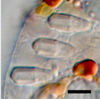 Light micrograph of a single Proterythropsis sp. isolate (a Warnowiid dinoflagellate) showing nematocyst structures. Scale bar = 5 microns. This image is lightly edited to remove distracting panel label from Panel F of Figure 1 from Hoppenrath et al. 2009, Molecular phylogeny of ocelloid-bearing dinoflagellates (Warnowiaceae) as inferred from SSU and LSU rDNA sequences, BMC Evolutionary Biology 9:116.